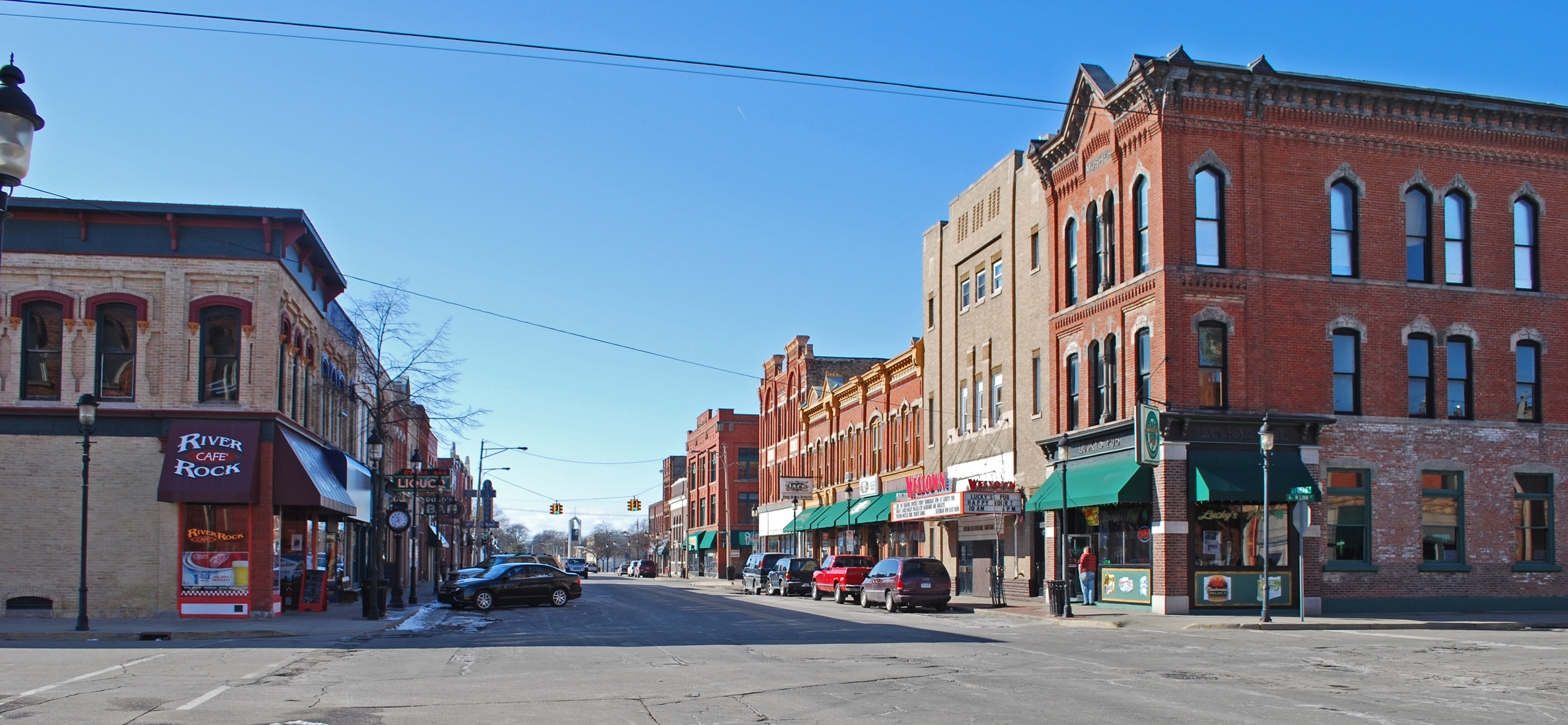 Midland Street Commercial District Bay City MI